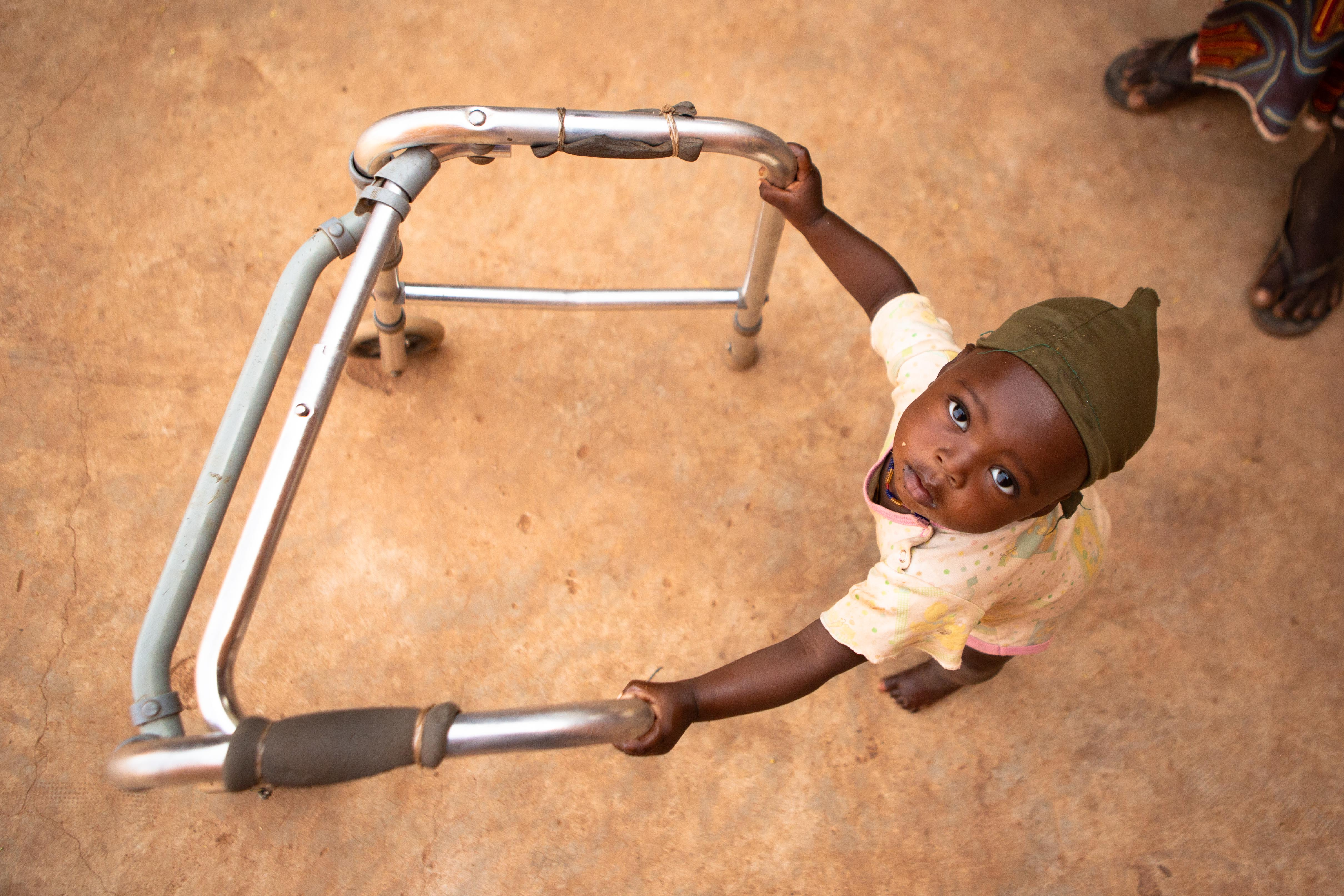 This is an image with the theme "Africa on the Move or Transport" from: Niger